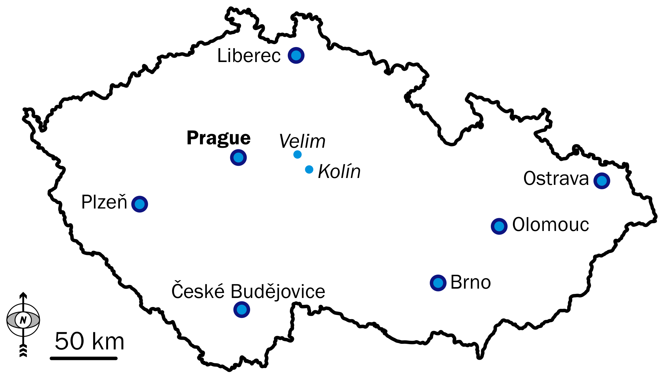 Locator map of Velim in the Czech Republic.